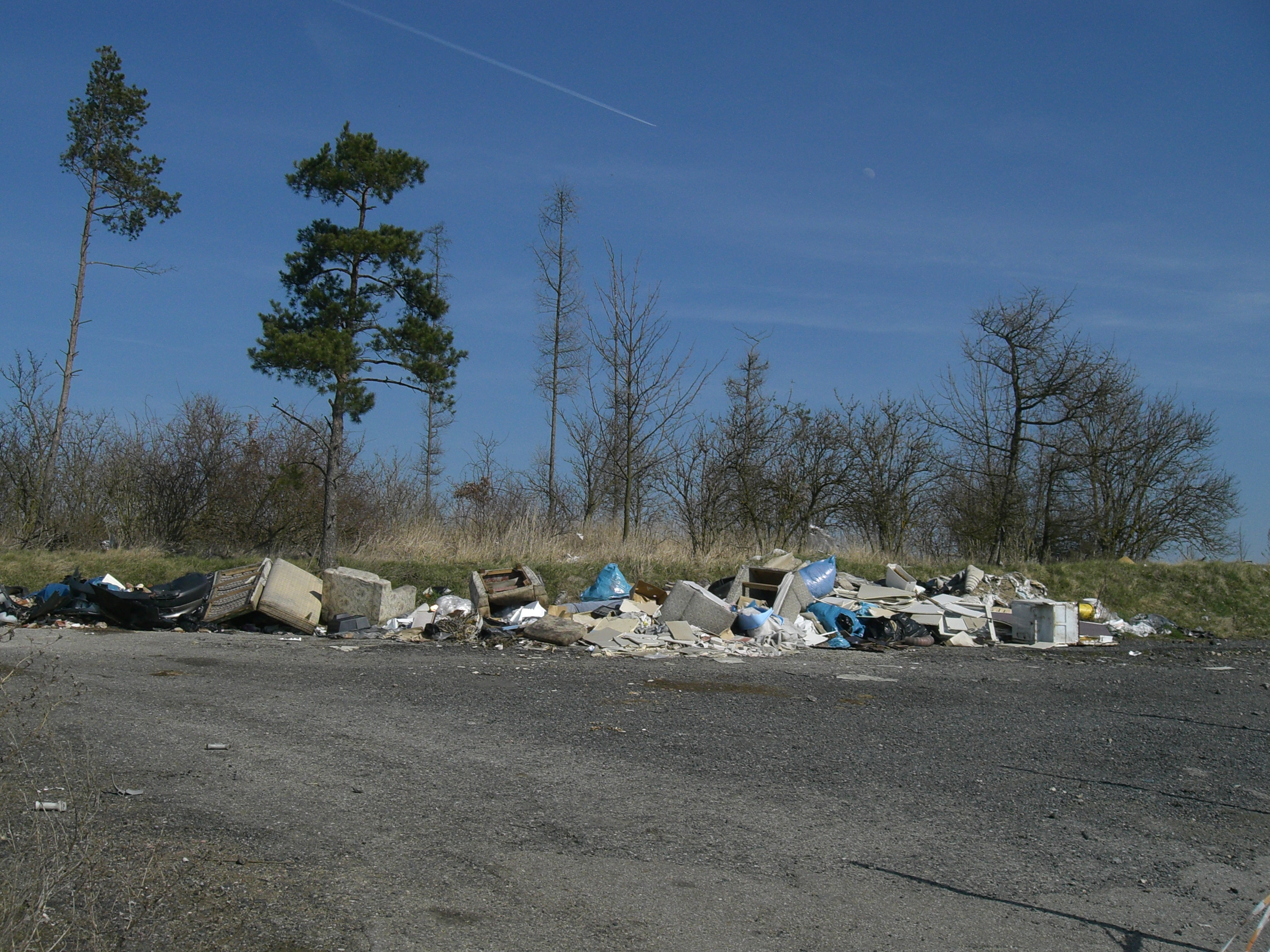 Illegal dump (landfill) near Smrkovice in Písek district, Czech Republic.